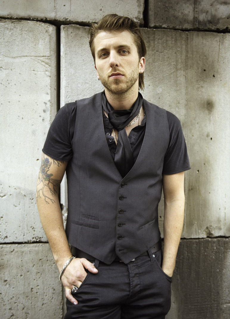 Photo likeness of uploader, created by uploader